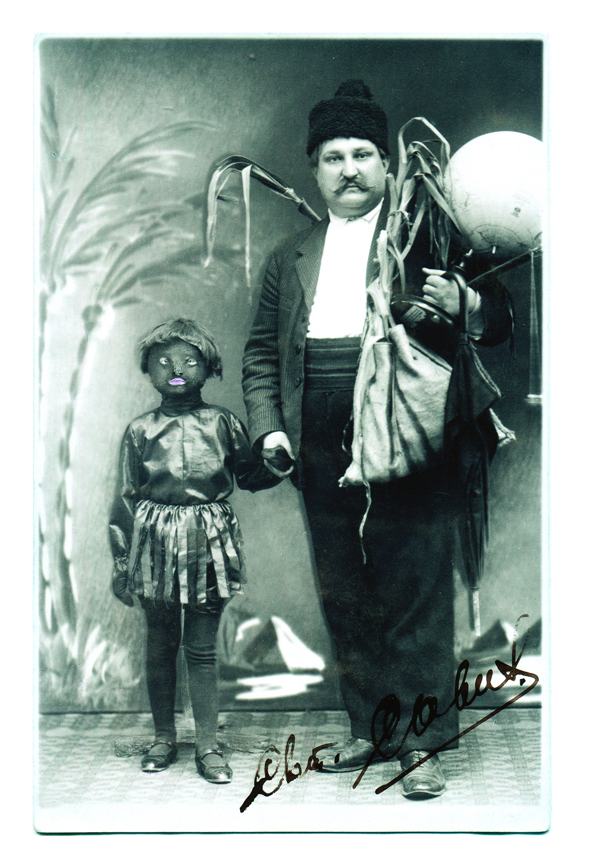 Svetislav Savić (1892-1958) and R. Nikolićeva (child) in a play: "Travel Around the World" by Branislav Nušić, Serbian National Theatre, guest performance in Vršac, 1927 Srpski (latinica): Svetislav Savić (1892-1958) i R. Nikolićeva (dete) u komadu: "Put oko sveta" Branislava Nušića, Srpsko narodno pozorište, gostovanje u Vršcu, 1927. Српски (ћирилица): Светислав Савић (1892-1958) и Р. Николићева (дете) у комаду: "Пут око света" Бранислава Нушића, Српско народно позориште, гостовање у Вршцу, 1927.